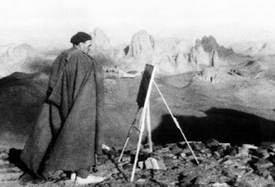 The French painter, Paul Élie Dubois, painting at Assekrem (cropped)